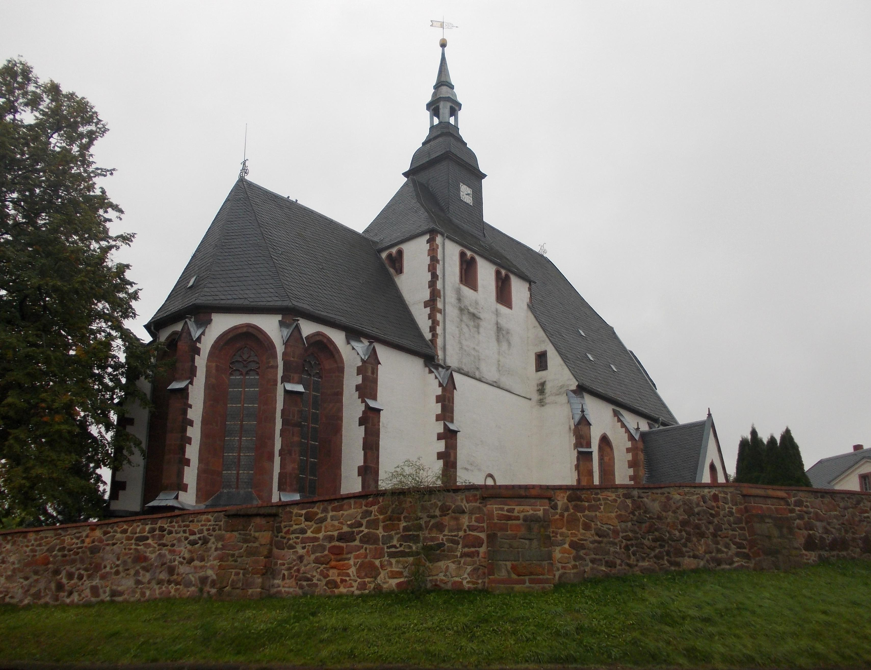 St. Mary's Church in Wickershain (Geithain, Leipzig district, Saxony)